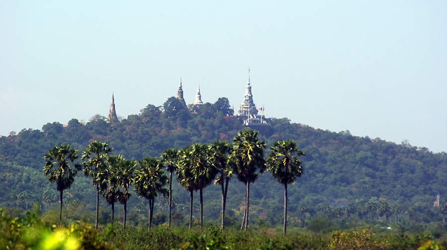 The Old Cambodian capital Udong near Phnom Penh